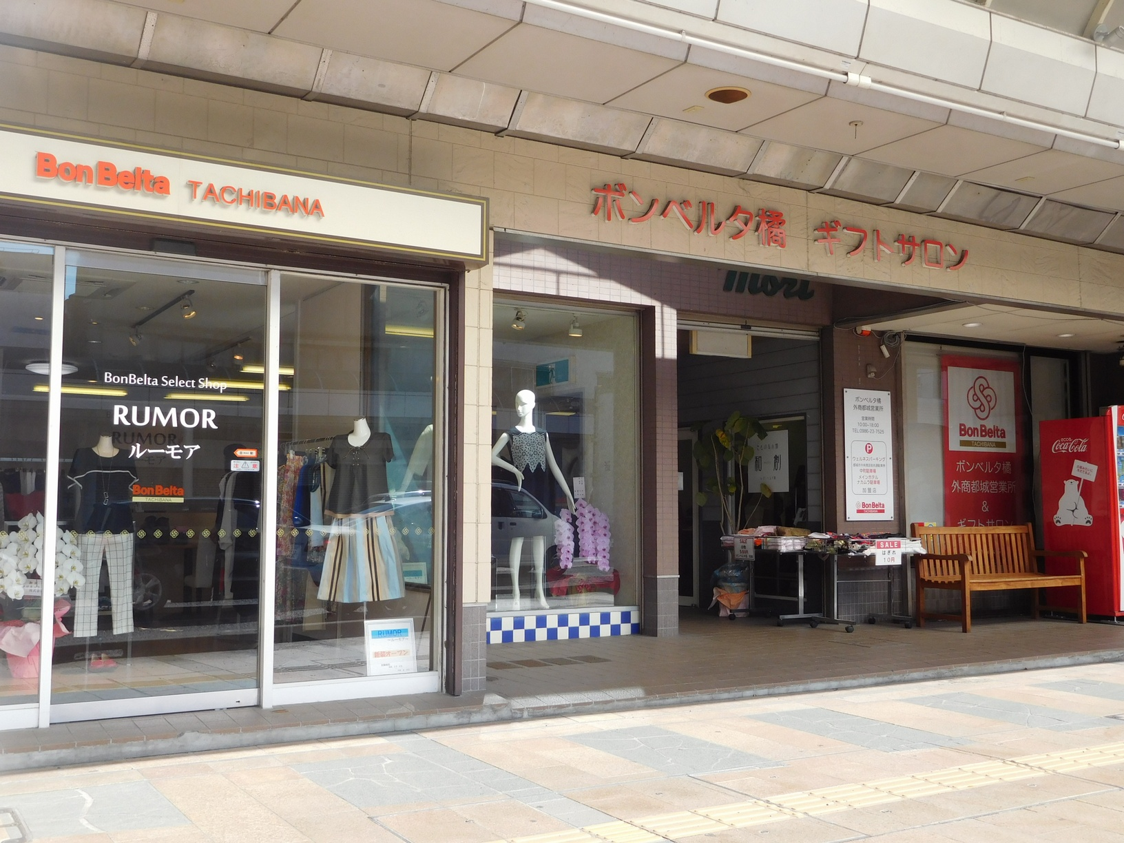 The Gift shop of Bon Belta Tachibana (Tachibana Department Store) in Miyakonojo City, Miyazaki Prefecture, Japan)